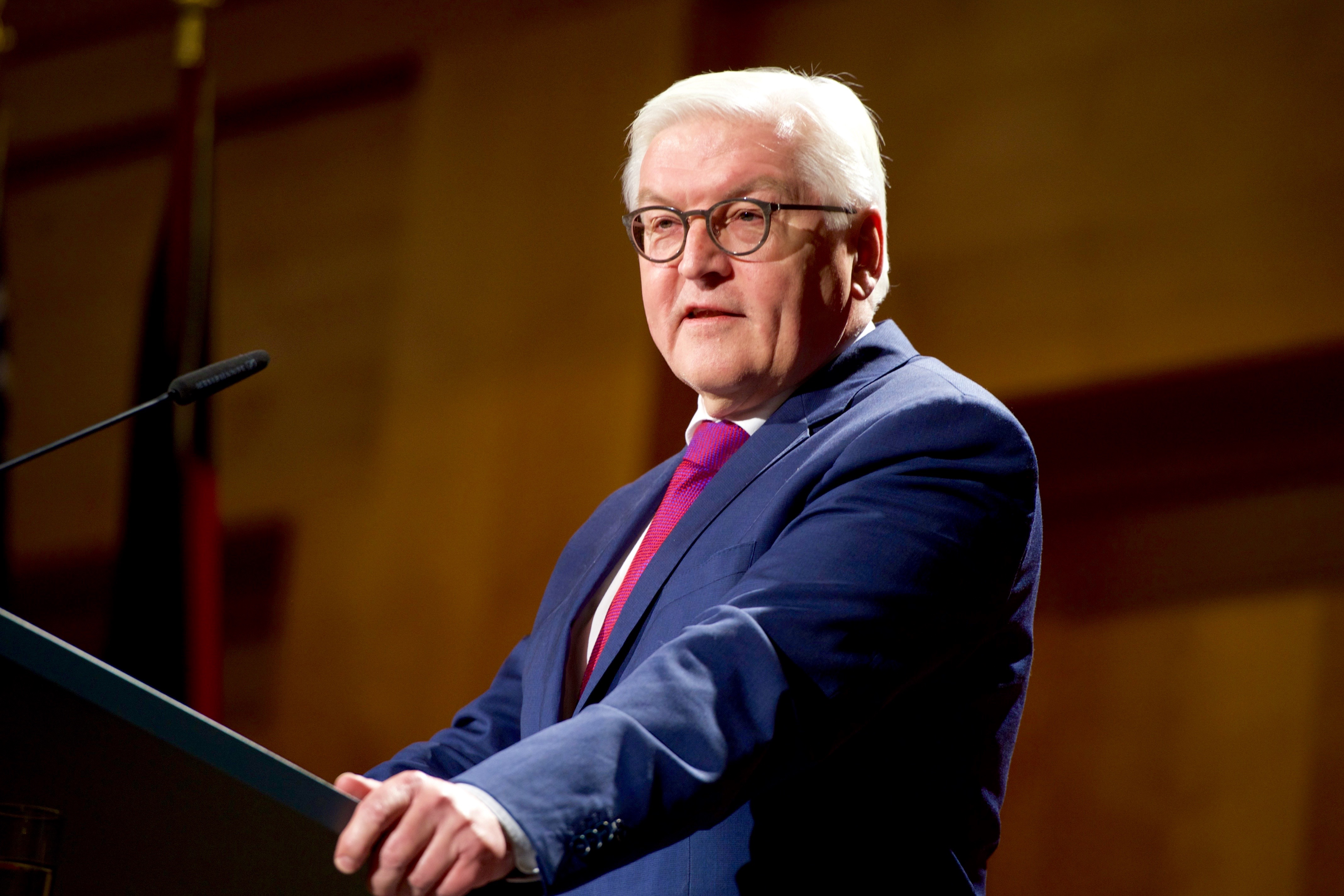 German Foreign Minister Frank-Walter Steinmeier delivers remarks before U.S. Secretary of State John Kerry receives the Order of Merit - the higher civilian award in Germany - from government officials during a ceremony at the German Foreign Ministry in Berlin, Germany, on December 5, 2016. [State Department photo/ Public Domain]